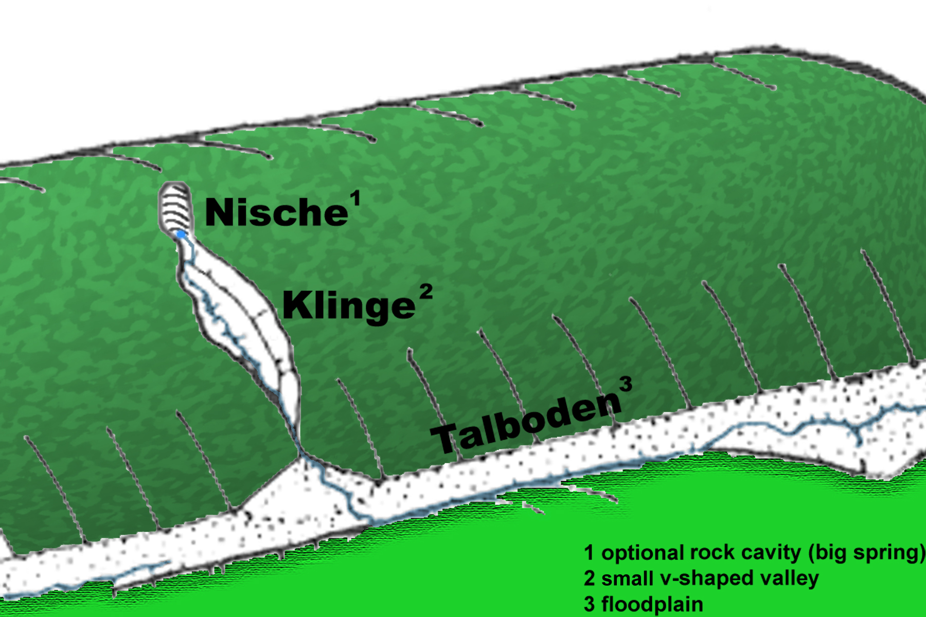 Klingen are small V-shaped incisions, in some cases at escarpments (ex. Swabian Alb) also with karst spring's rock cavities. The name Klinge is a notation, often used in southwest Germany.